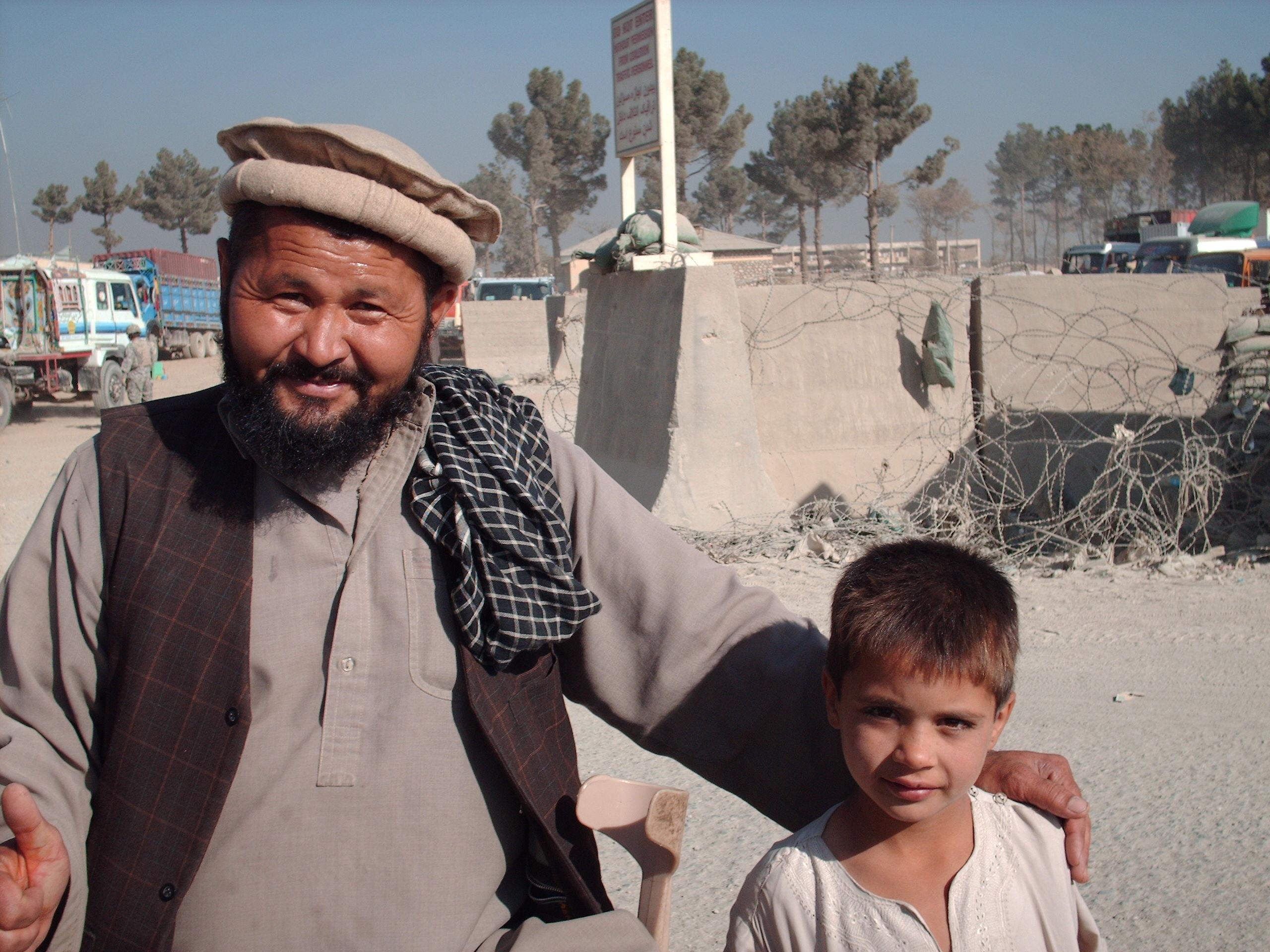 People of Afghanistan